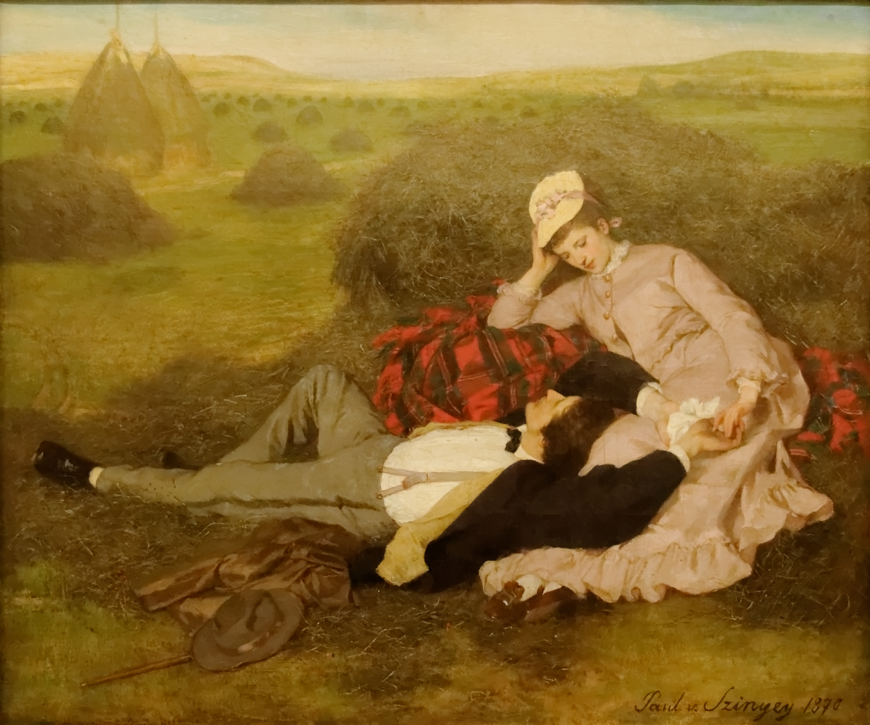 Lovers, 1870. Pál Szinyei Merse. Hungarian National Gallery